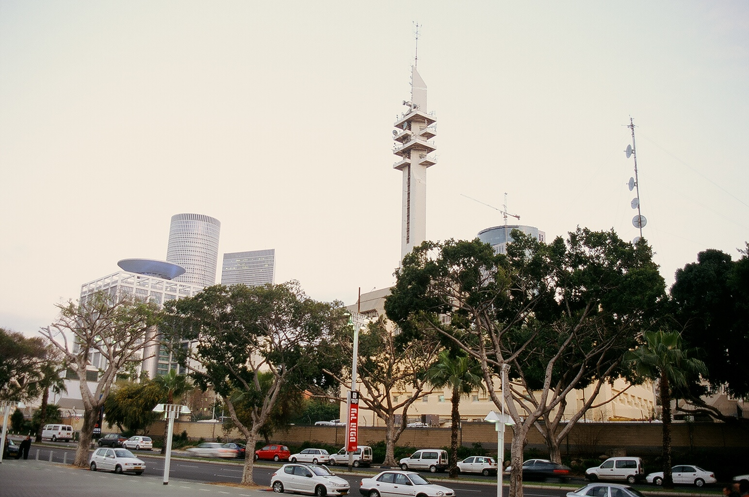 Israel, Tel Aviv, Azriely Towers and Marganit Tower - view from Sderot Sha'ul HaMelech Remark: It's Tel Aviv, not Jerusalem.